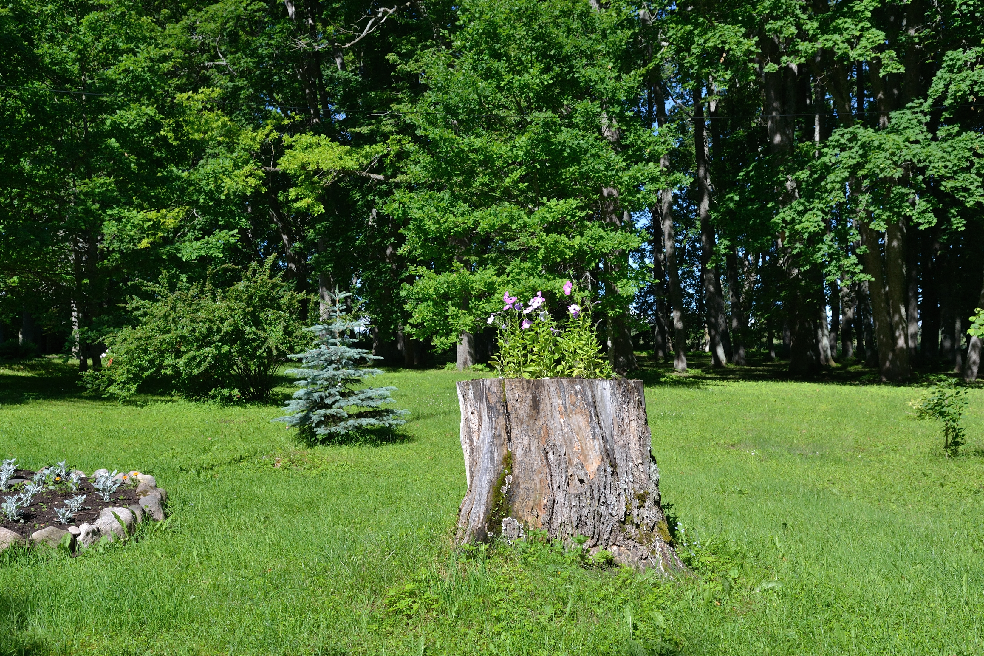 Uderna manor park